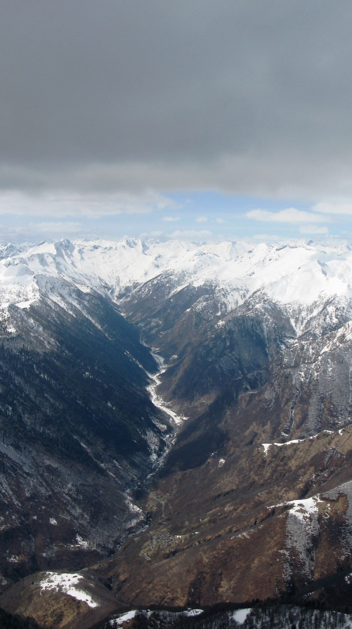 Onsernone valley in Ticino, Switzerland